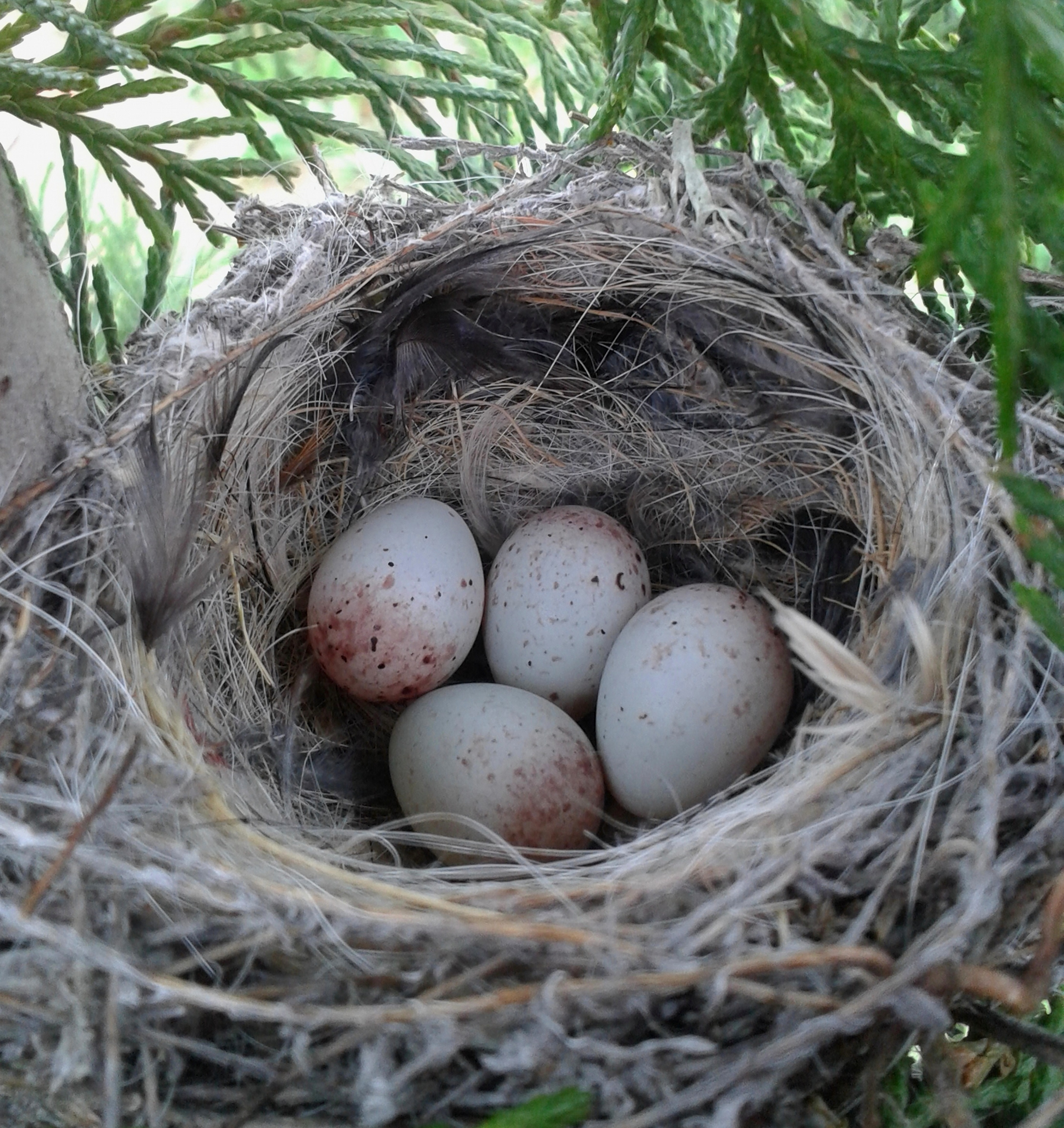 Serinus serinus bird nest with 4 eggs.